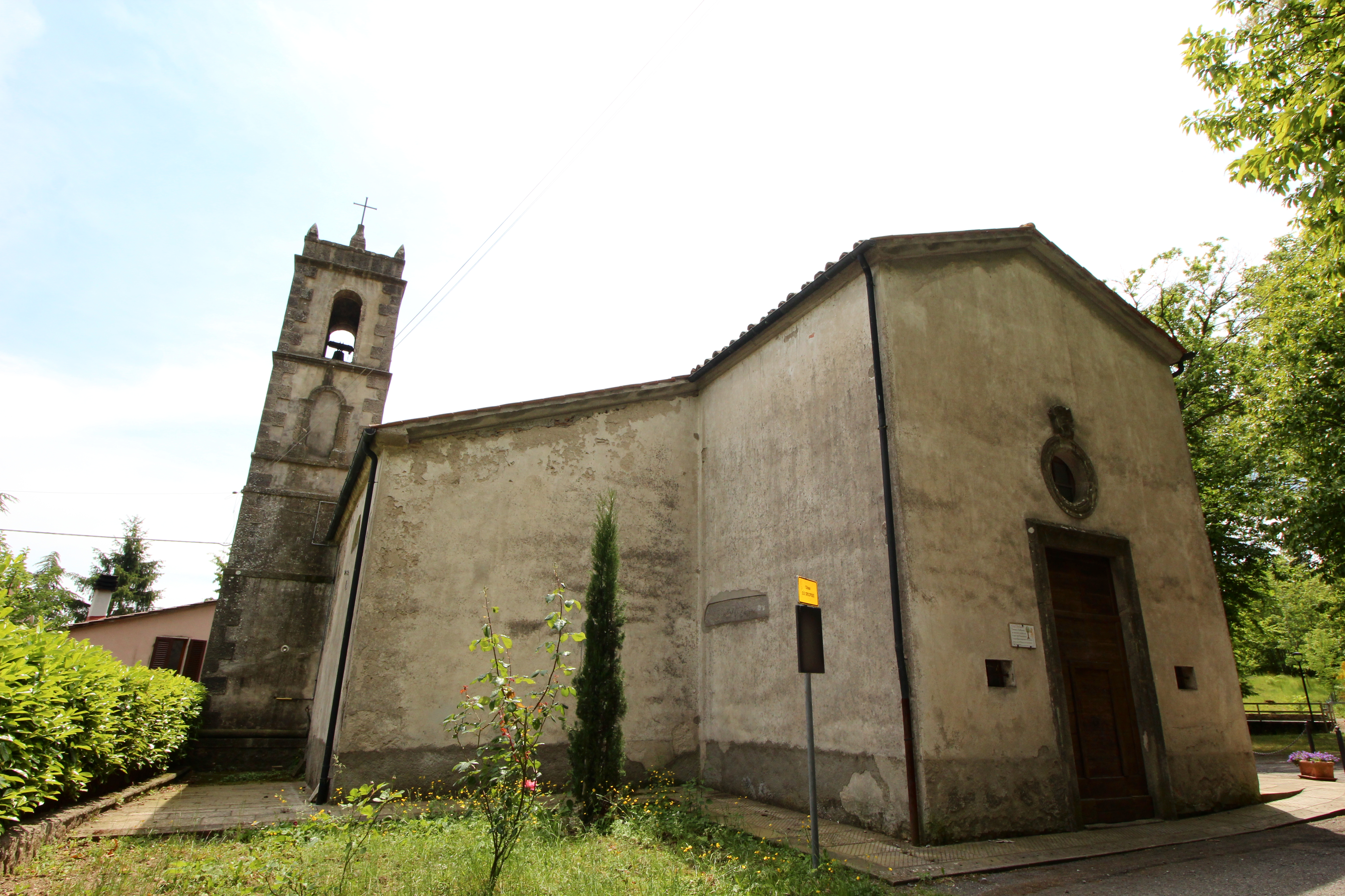 Church Chiesa del Crocifisso, Tre Case, village in the territory of Piancastagnaio, Province of Siena, Tuscany, Italy.